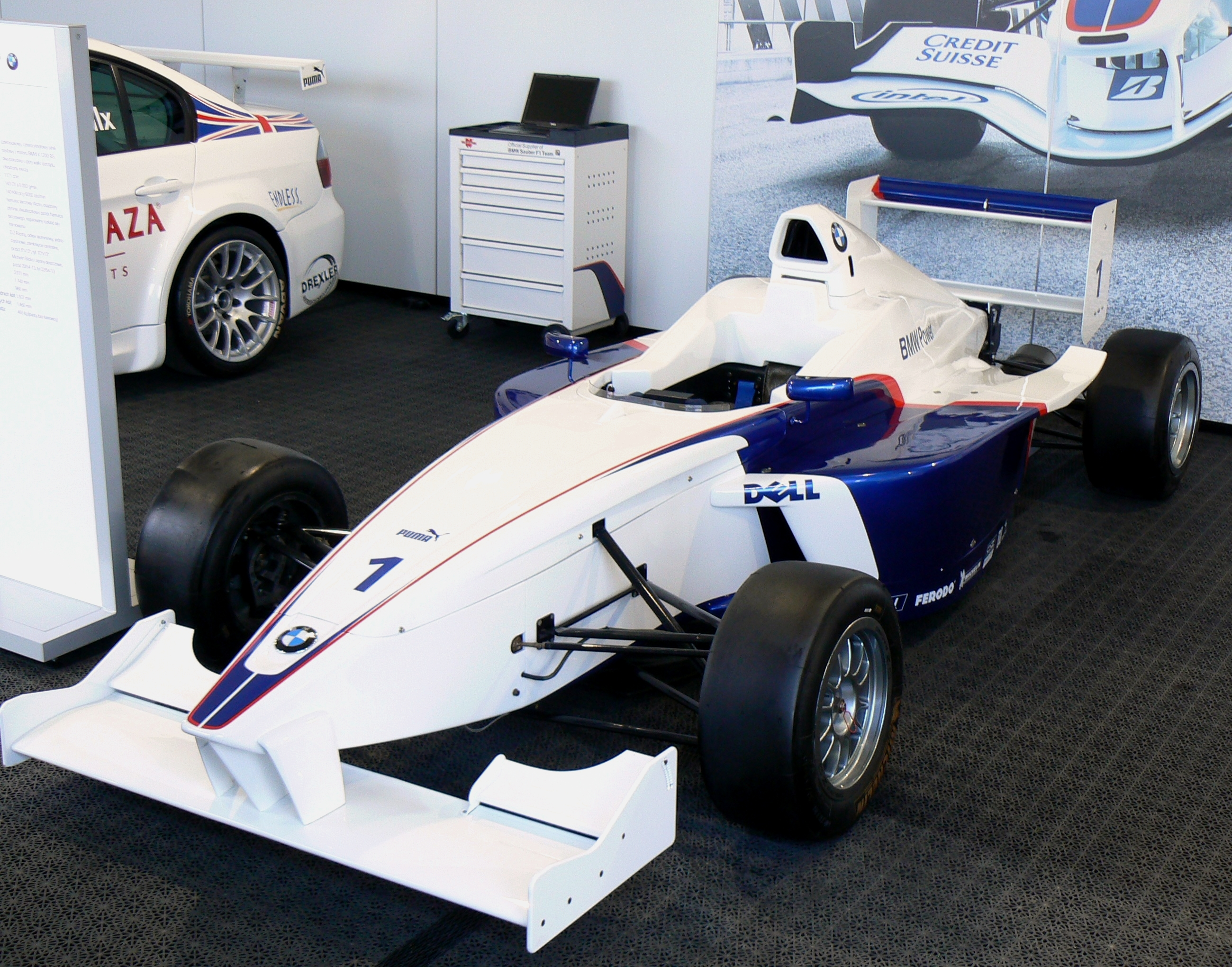 Formula BMW FB02 - photographed during BMW Sauber F1 Team Pit Lane Park